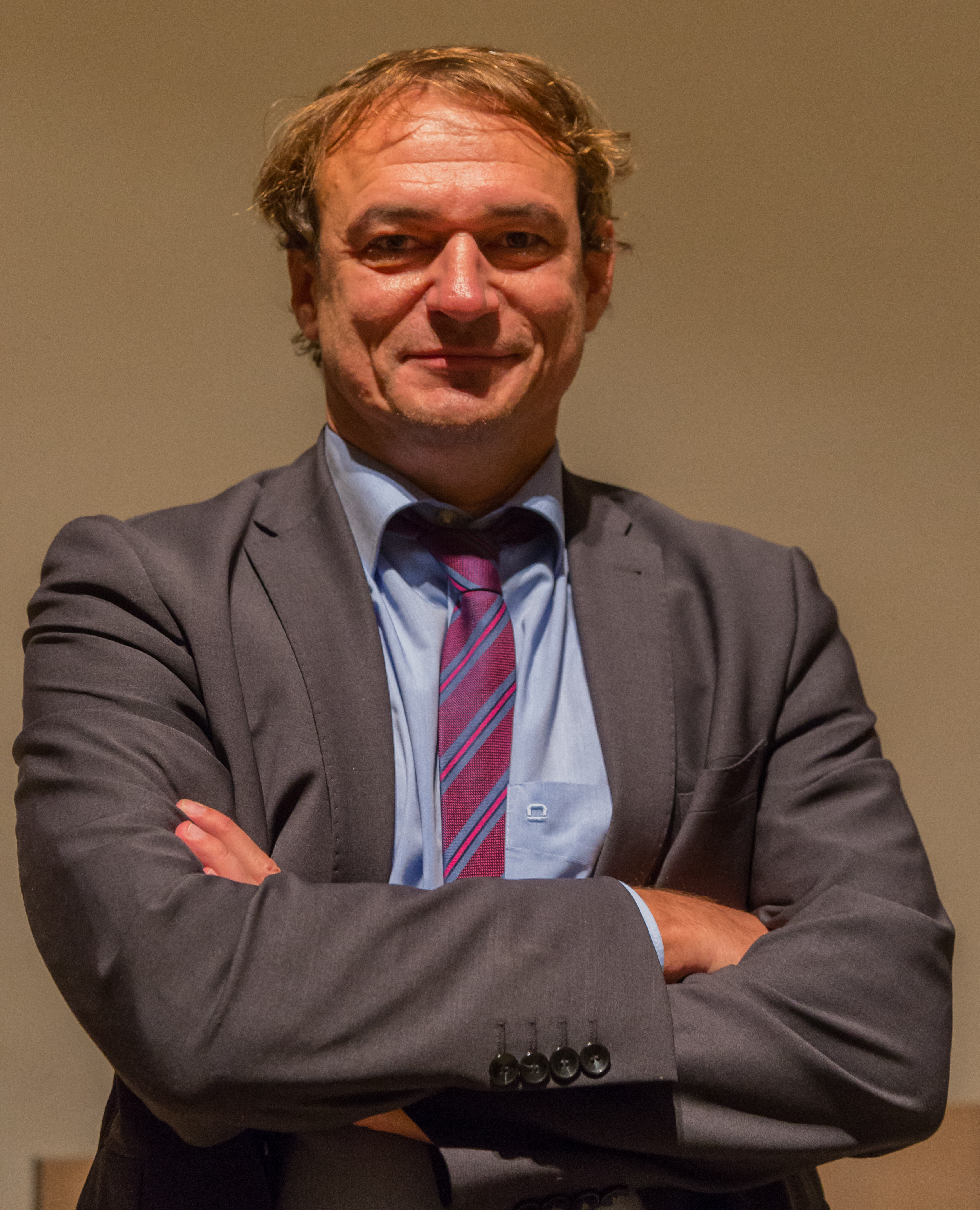 German journalist Andreas Englisch. Picture taken after an evening lecture in the Protestant Christ Church (Christuskirche) in Ibbenbüren, Kreis Steinfurt, North Rhine-Westphalia, Germany. The Vatican correspondent told the audience about his experiences with the Holy See and the popes John Paul II, Benedict XVI and Francis.